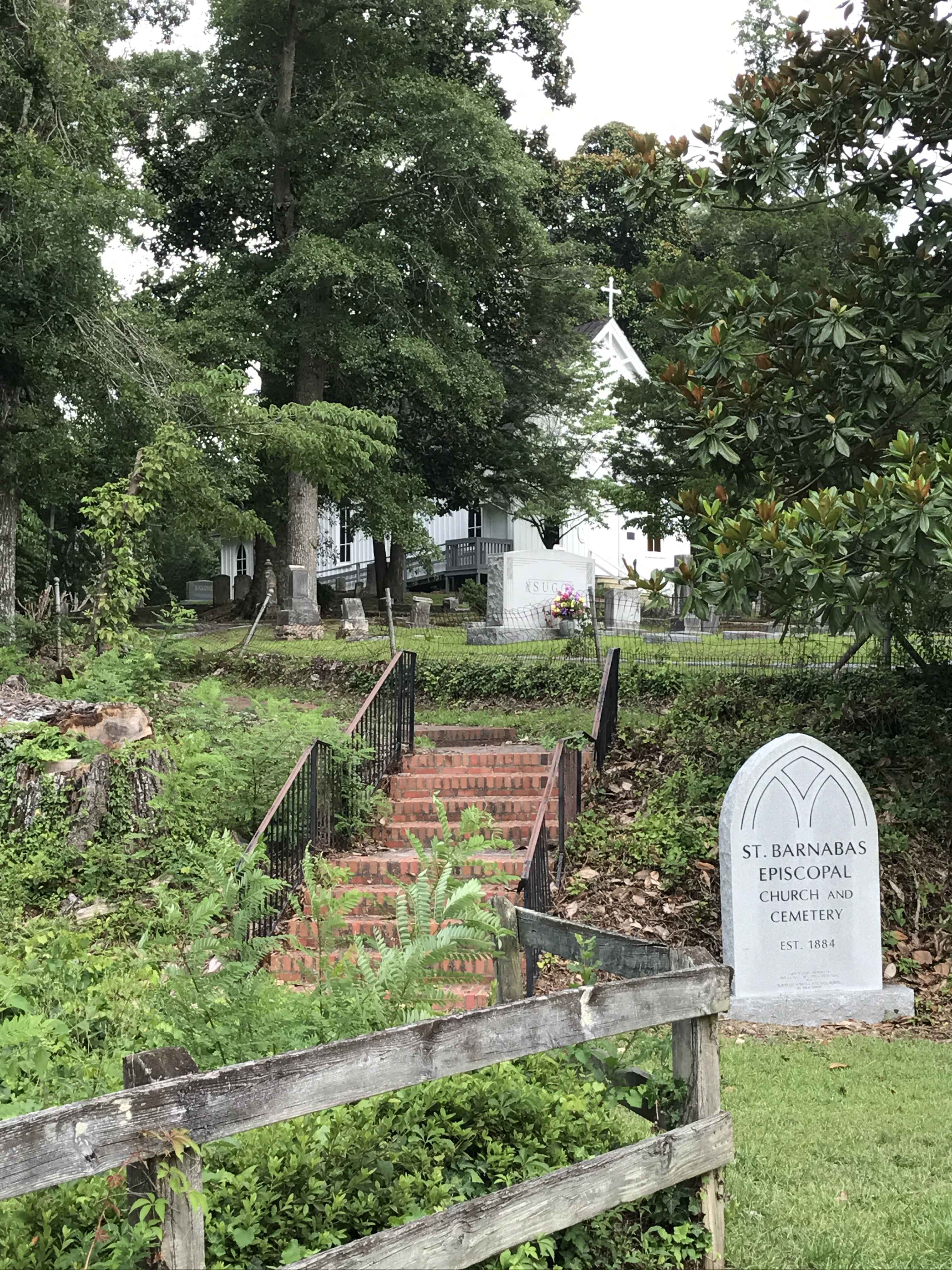 Front yard of the church with a sign